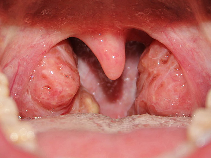 Tonsils